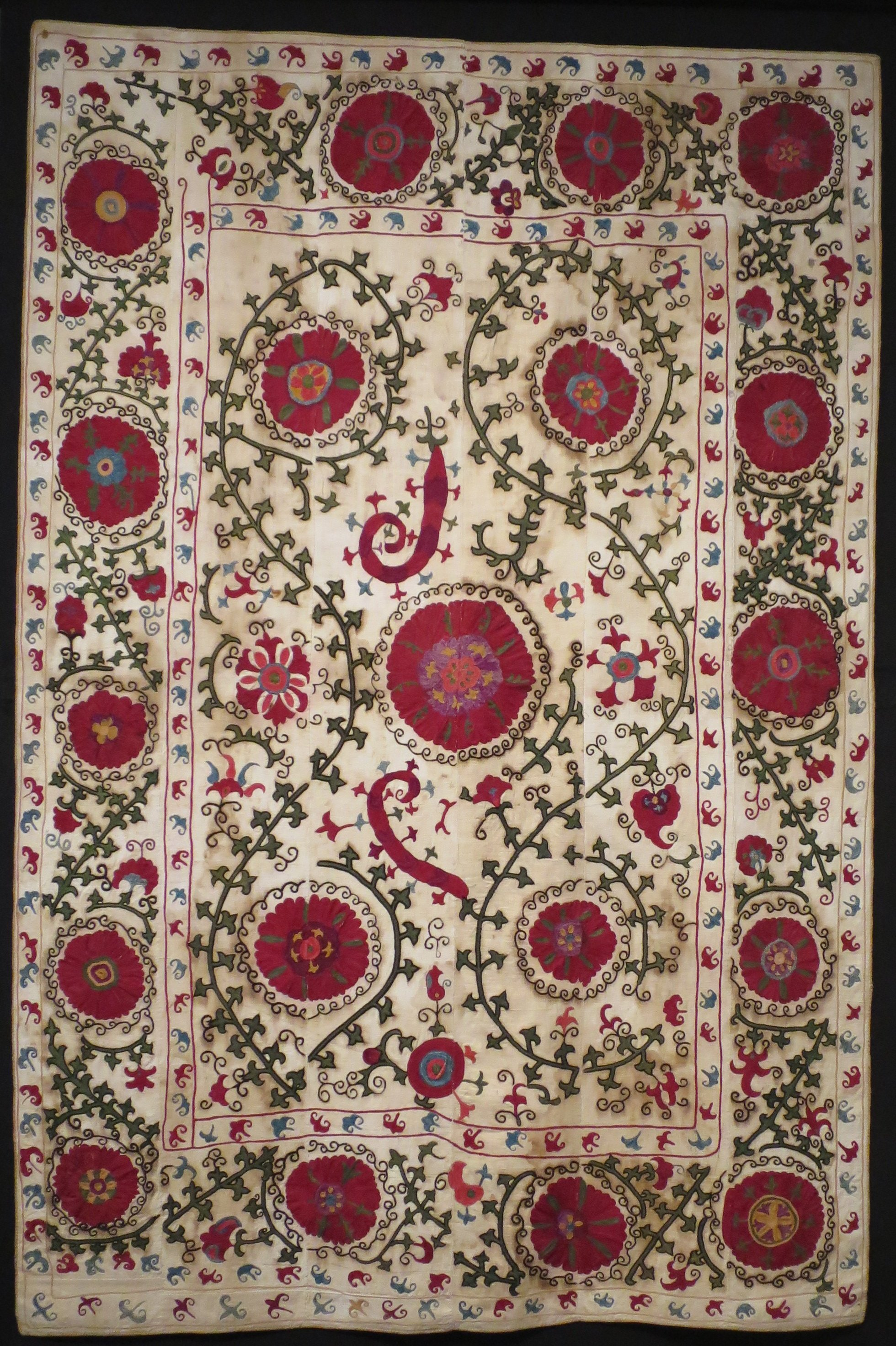 Suzani (embroidery) from the Bukhara region of Uzbekistan, late 19th century, cotton with silk threads, Doris Duke Foundation for Islamic Art accession 85.81